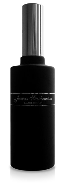 Juozas Statkevičius (Juozas Statkus) eau de parfume.